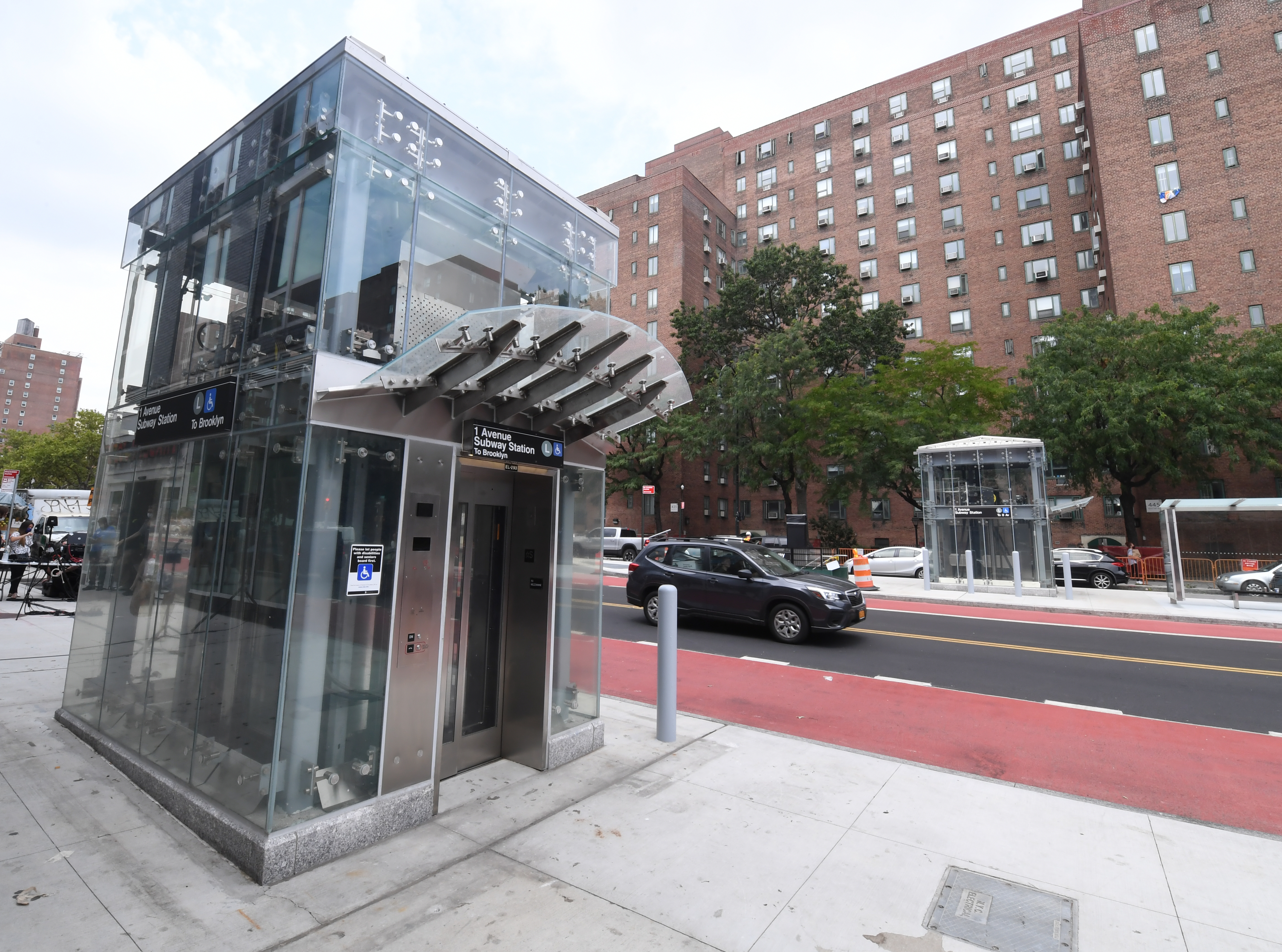 MTA Chief Development Officer Janno Lieber, NYCT Senior Advisor for Systemwide Accessibility Alex Elegudin, and Mayor’s Office for People with Disabilities Commissioner Victor Calise announce the completion of elevators at the 1 Av station on the L line, as well as the Bedford Av station, on Thu., August 6, 2020. Photo: Marc A. Hermann / MTA New York City Transit